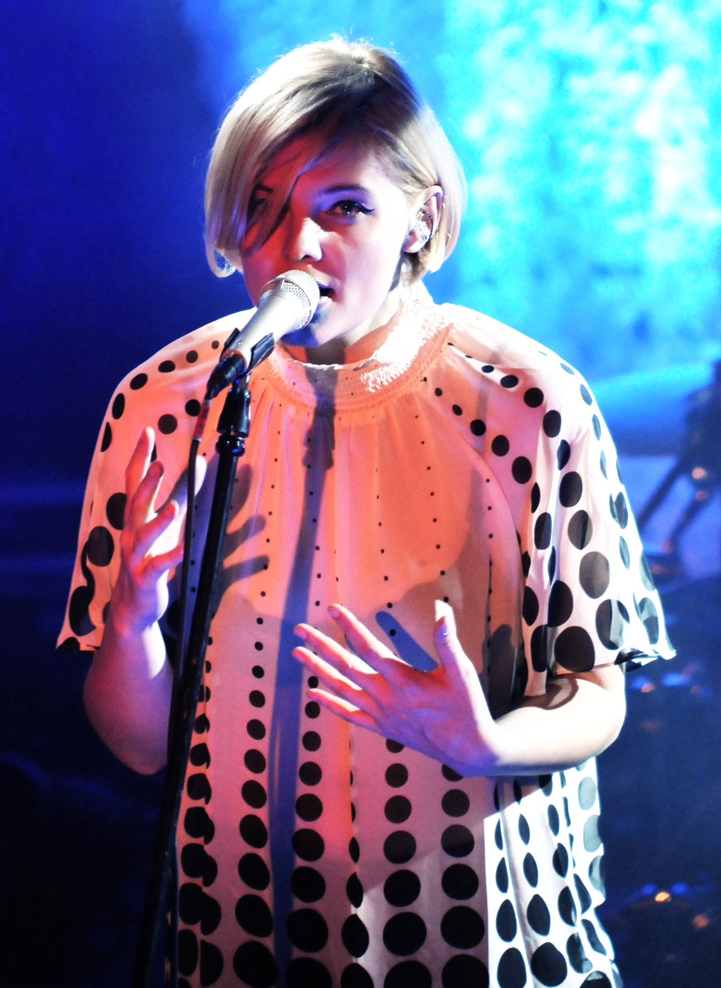 Ania Dabrowska in concert in Sopot, 13 Feb 2009.